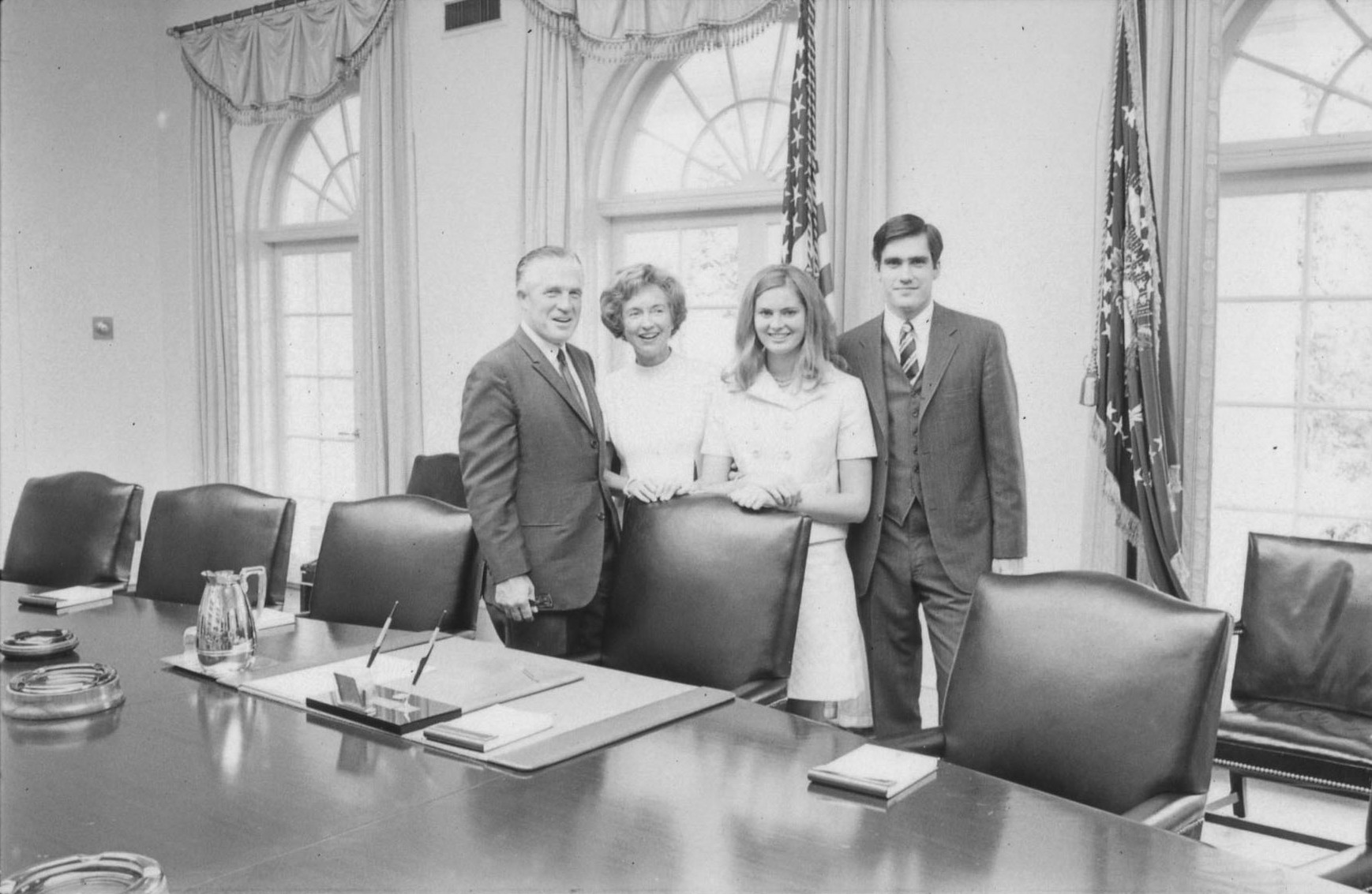 ●Frame(s): WHPO-1542-04-07, George Romney and three family members standing by the conference table. 7/13/1969, Washington, D.C., White House, Cabinet Room. George W. Romney, Lenore Romney, Willard Mitt Romney, Ann Romney ● Frame(s): WHPO-1542-08-13, Sen. Hugh Scott and two family members at the conference table. 7/13/1969, Washington, D.C., White House, Cabinet Room. Hugh Scott, Scott family members